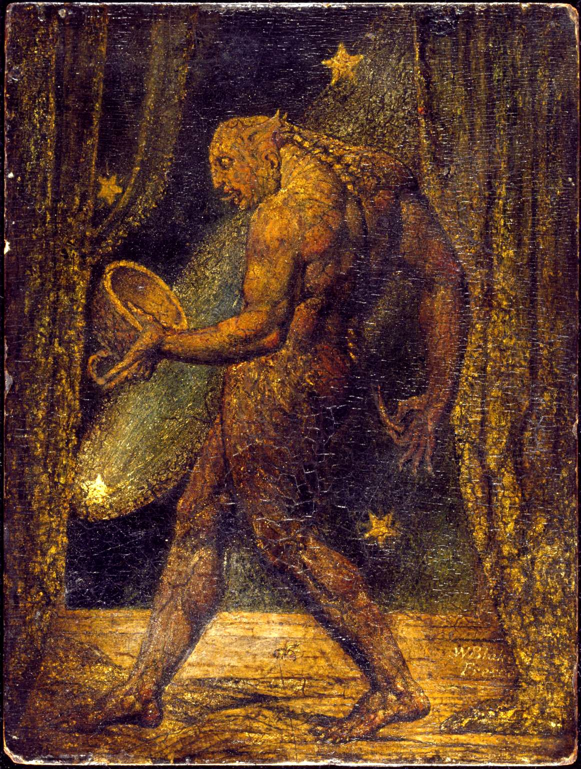 William Blake The Ghost of a Flea 1819-20 Tempera & gold on mahogany John Varley – an artist, astrologer and close friend of Blake – reported in his Treatise on Zodiacal Physiognomy (1828) that Blake once had a spiritual vision of a ghost of a flea and that ‘This spirit visited his imagination in such a figure as he never anticipated in an insect.’ While drawing the spirit it told the artist that all fleas were inhabited by the souls of men who were ‘by nature bloodthirsty to excess’. In the painting it holds a cup for blood-drinking and stares eagerly towards it. Blake’s amalgamation of man and beast suggests a human character marred by animalistic traits. William Blake (1757‑1827) The Ghost of a Flea c.1819-20 Tempera and gold on mahogany 214 x 162 mm frame: 382 x 324 x 50 mm Tate Bequeathed by W. Graham Robertson 1949 Reference N05889